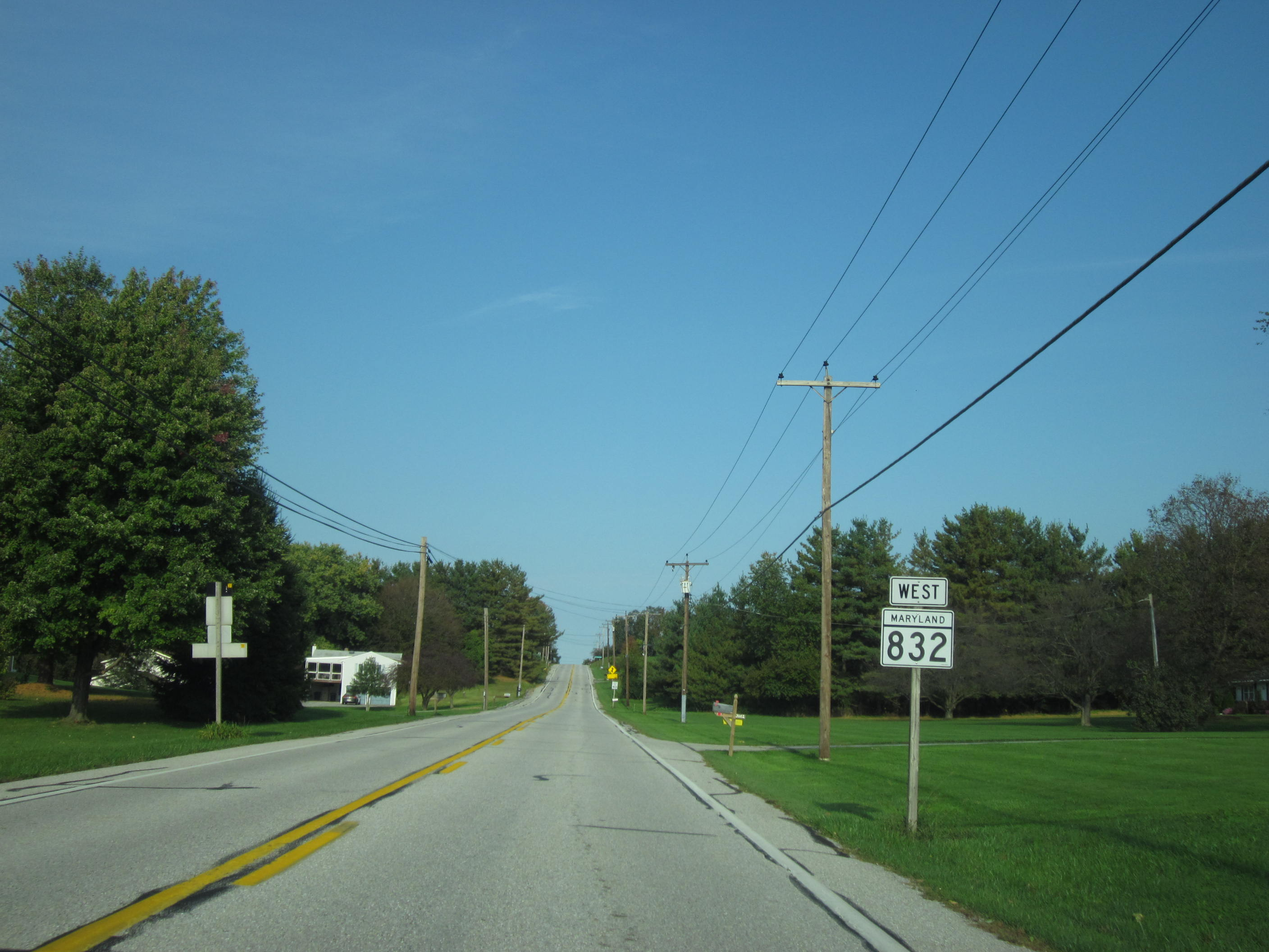 Sign on westbound Maryland Route 832